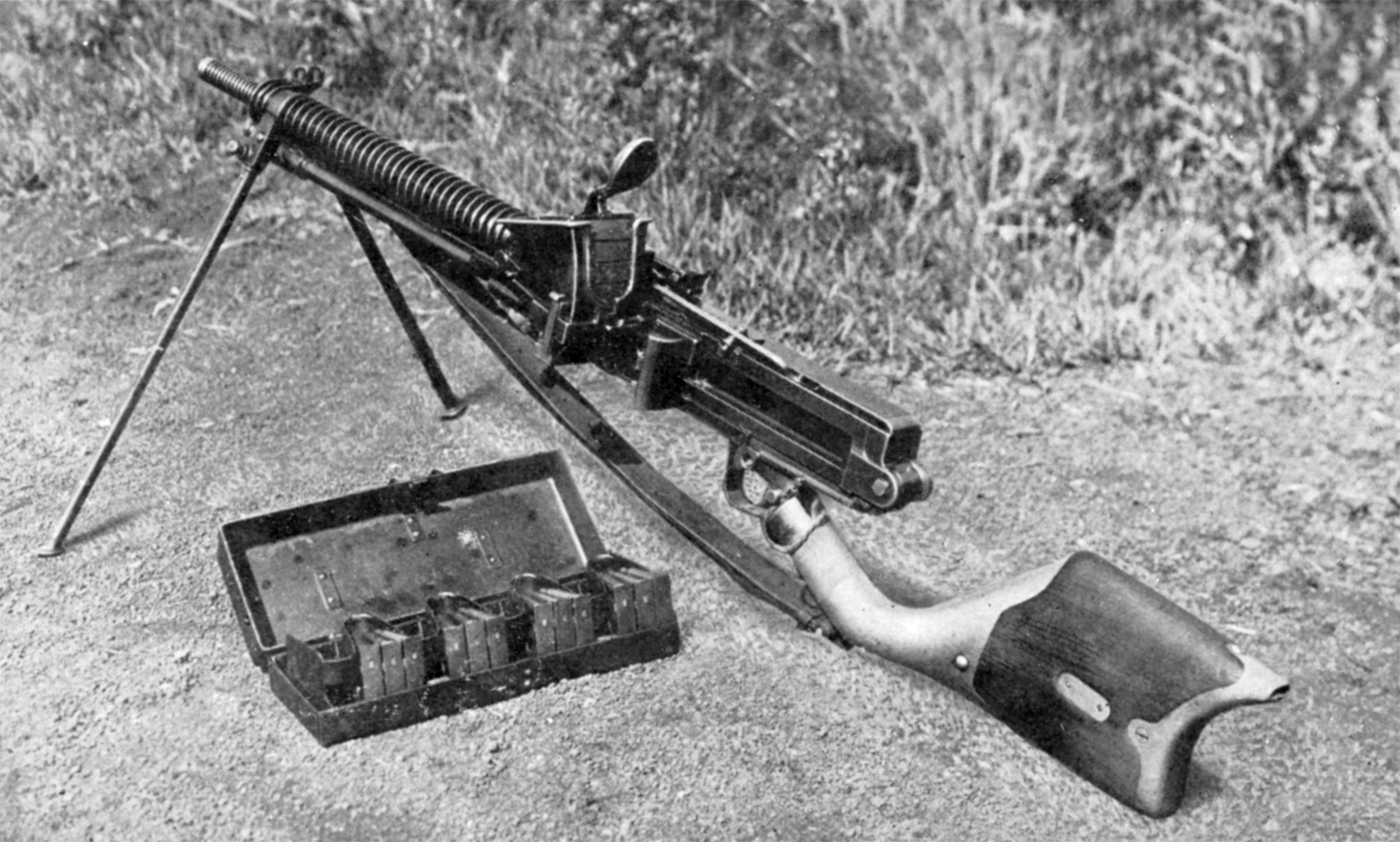 A Japanese Type 11 light machine gun and ammunition box